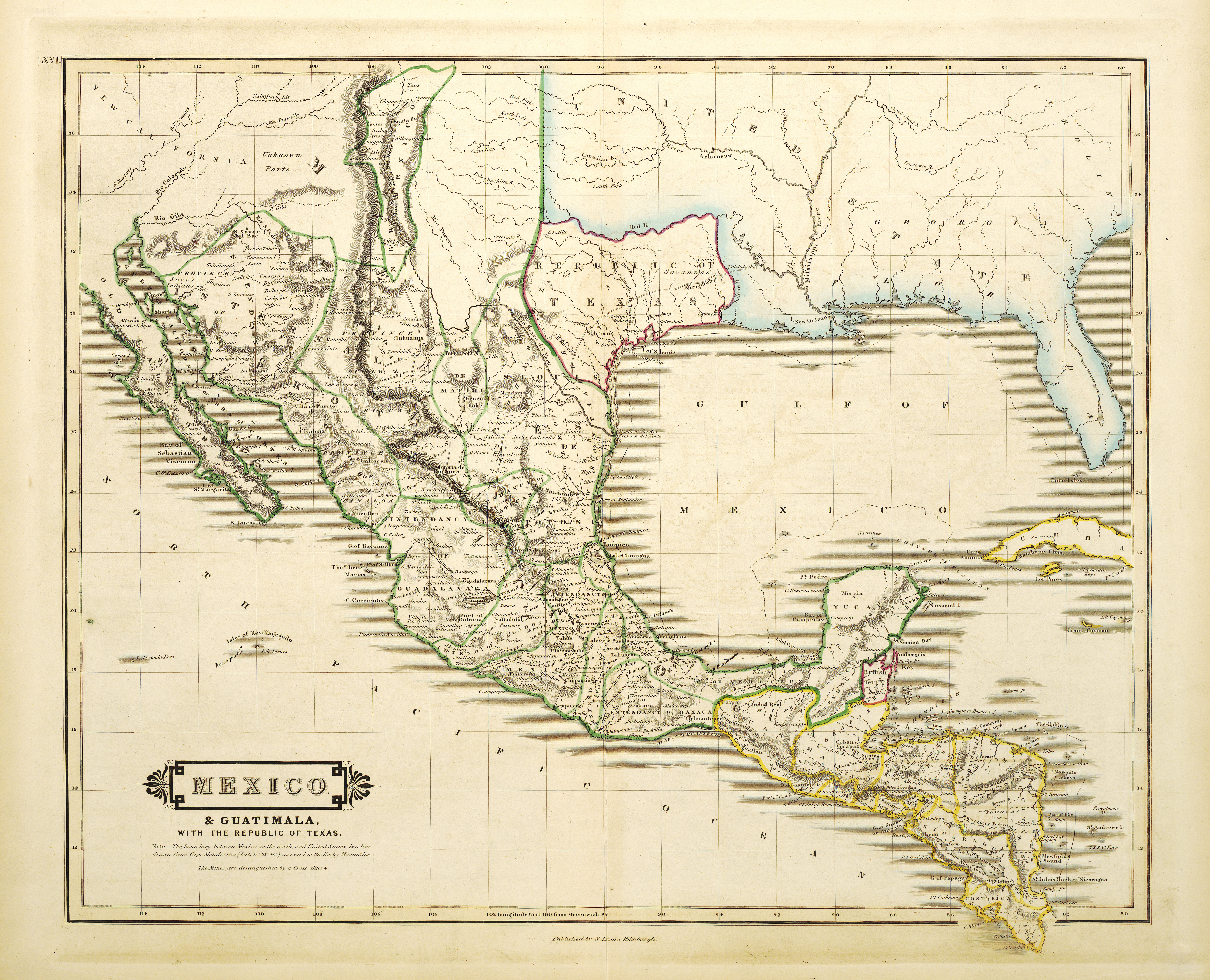 Shortly after Texas declared its independence from Mexico in 1836, the Edinburgh painter, engraver, printer, cartographer, lithographer, and publisher William Home Lizars (1788-1859), brother of Daniel Lizars II (1793-1875) updated the original plate for the map of Mexico & Guatemala to include the new republic. He added the towns of Galveston, Harrisburg, Brazoria, S. Felipe de Austin (although recently destroyed), Bejar, and "S. Jose" (probably intended to represent Goliad). Lizars made no further improvements to the general cartographic shape of the republic except to show the Nueces River as the southern boundary and the western boundary curving to the point where the 100th meridian strikes the Red River. The map continues to show Mexico's administrative districts as Spanish Intendencies (Intendencias) and Internal Provinces (Provincias Internas) over fifteen years since Mexico's independence.